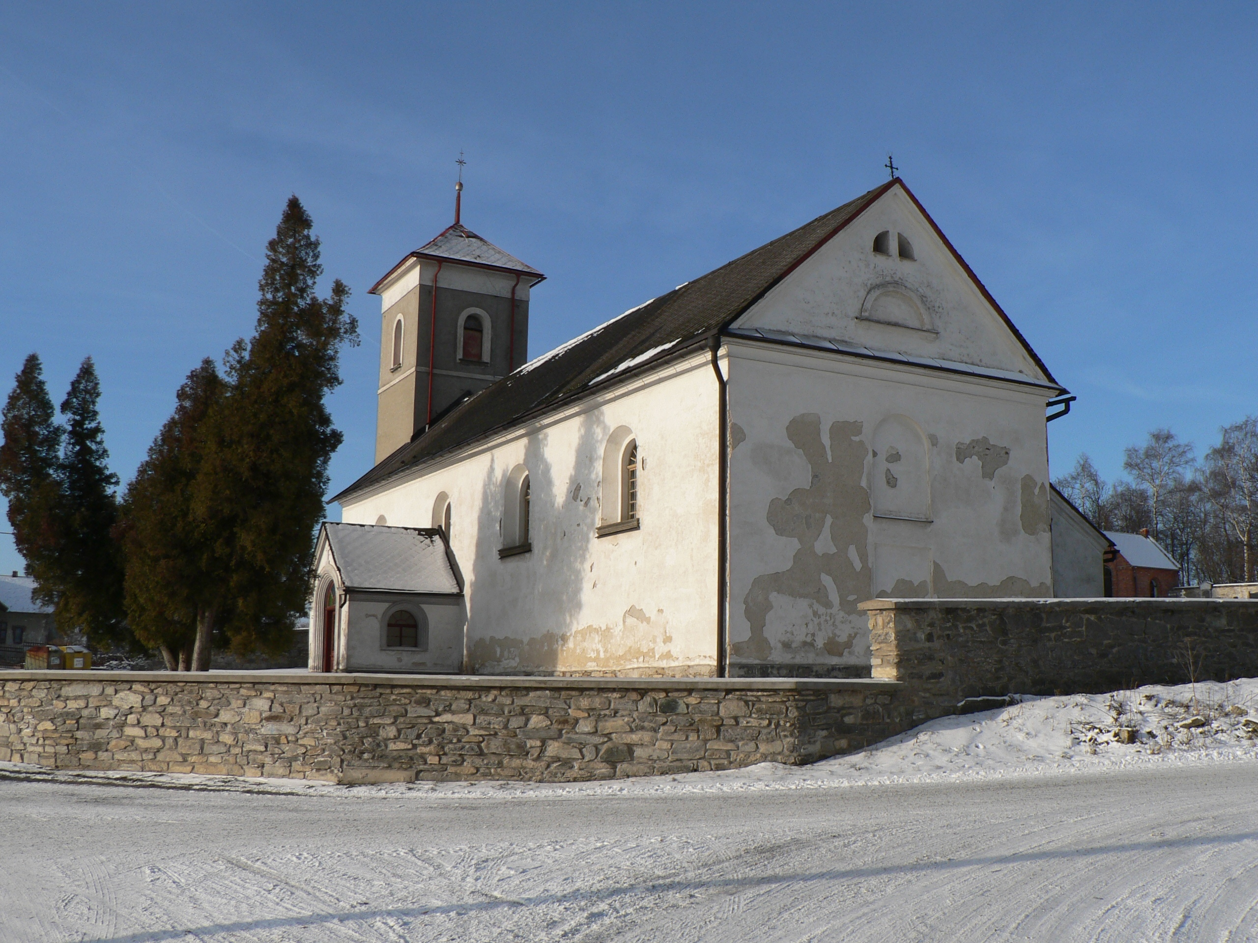 Church of the Immaculate Conception in Habartice, Šumperk District, Czech Republic